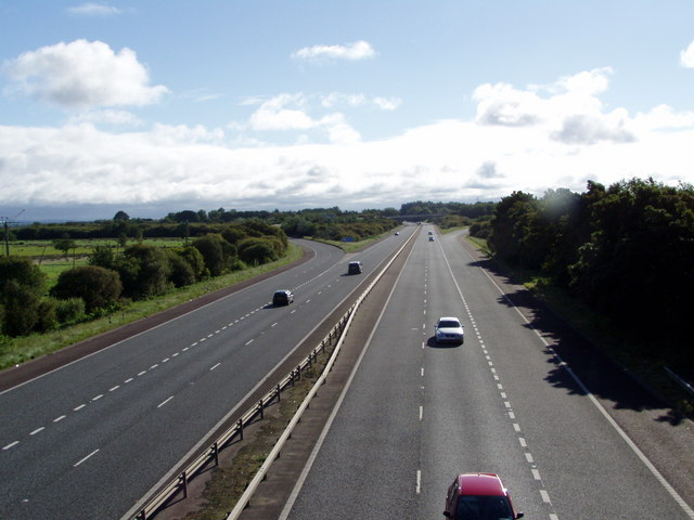 M1 Motorway Taken from Charlestown Bridge looking east towards Belfast close to J11 M12